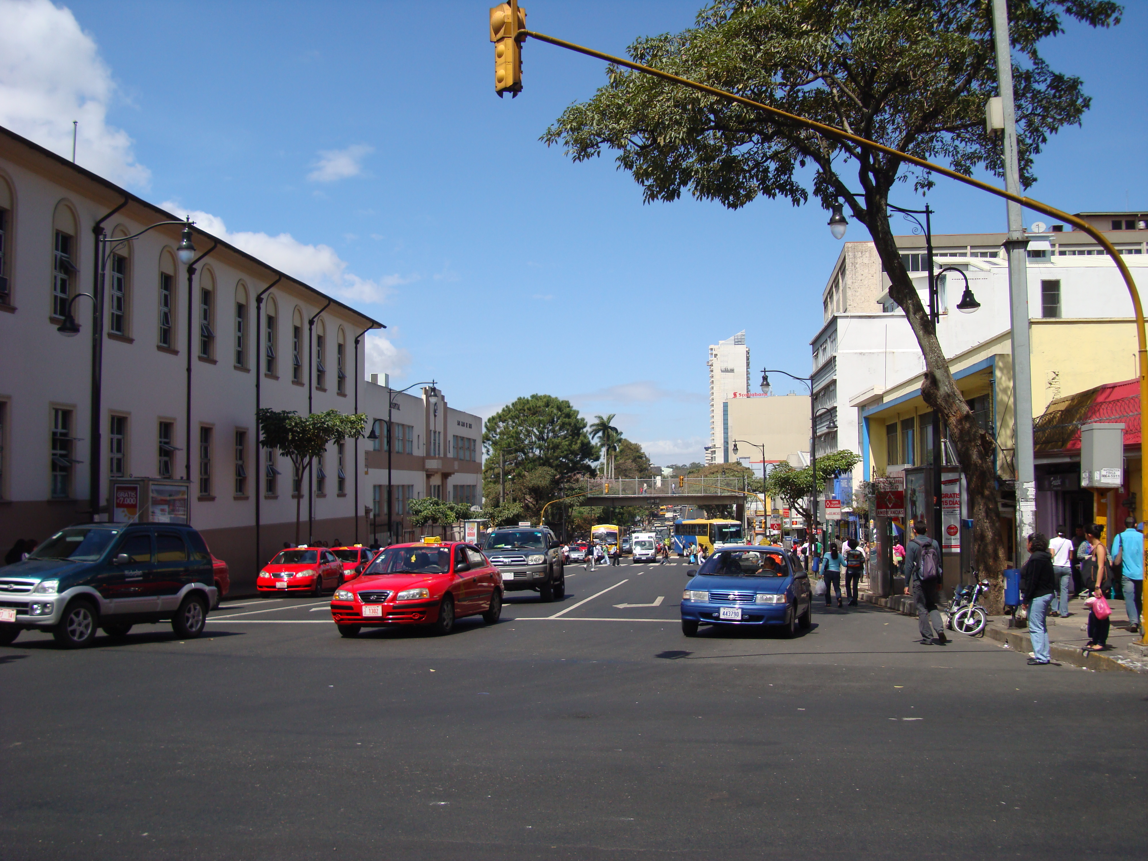 Looking toward the Hospital San Juan de Dios